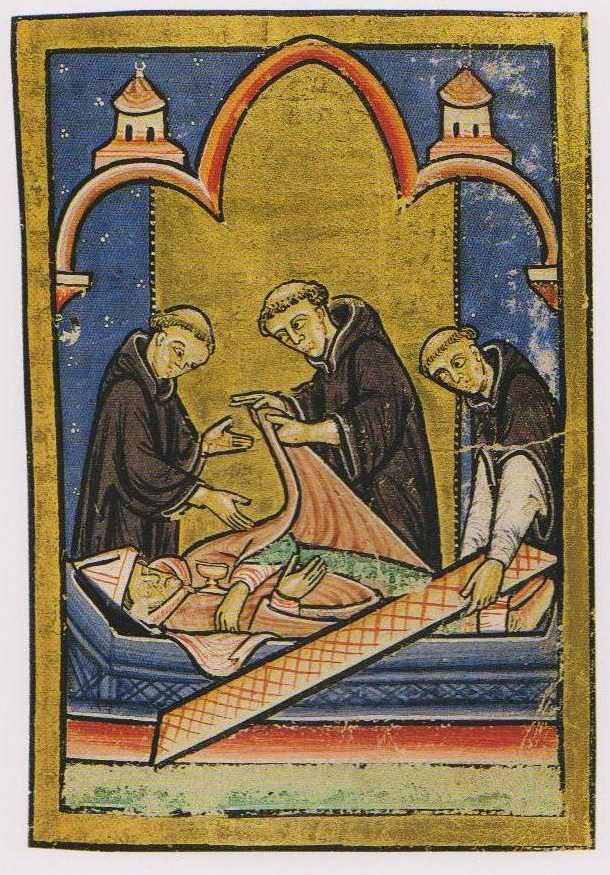 A miniature in the British Library Yates Thomson MS 26, Bede's Prose Life of St Cuthbert, depicting the miracle where Cuthbert's body is discovered incorrupt